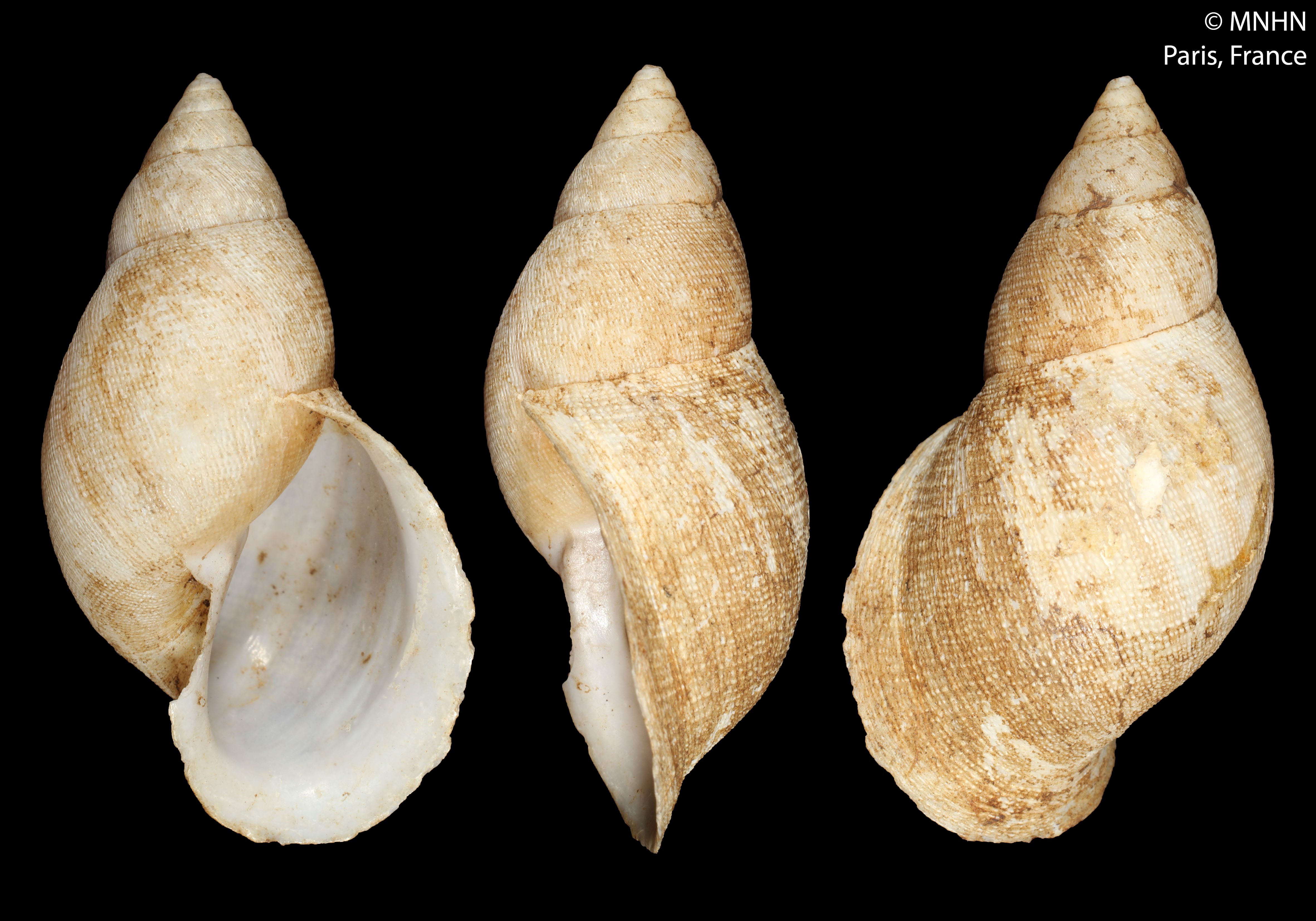 PRESERVED_SPECIMEN; Bulimulus acholus Mabille, 1895; Type status: LECTOTYPE; Identified by: N/A; Individual count: 1; Event date: N/A